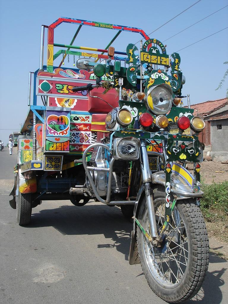 A Chhakdo Rickshaw